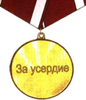 Medal «For diligence» 1st. (GFS) revers